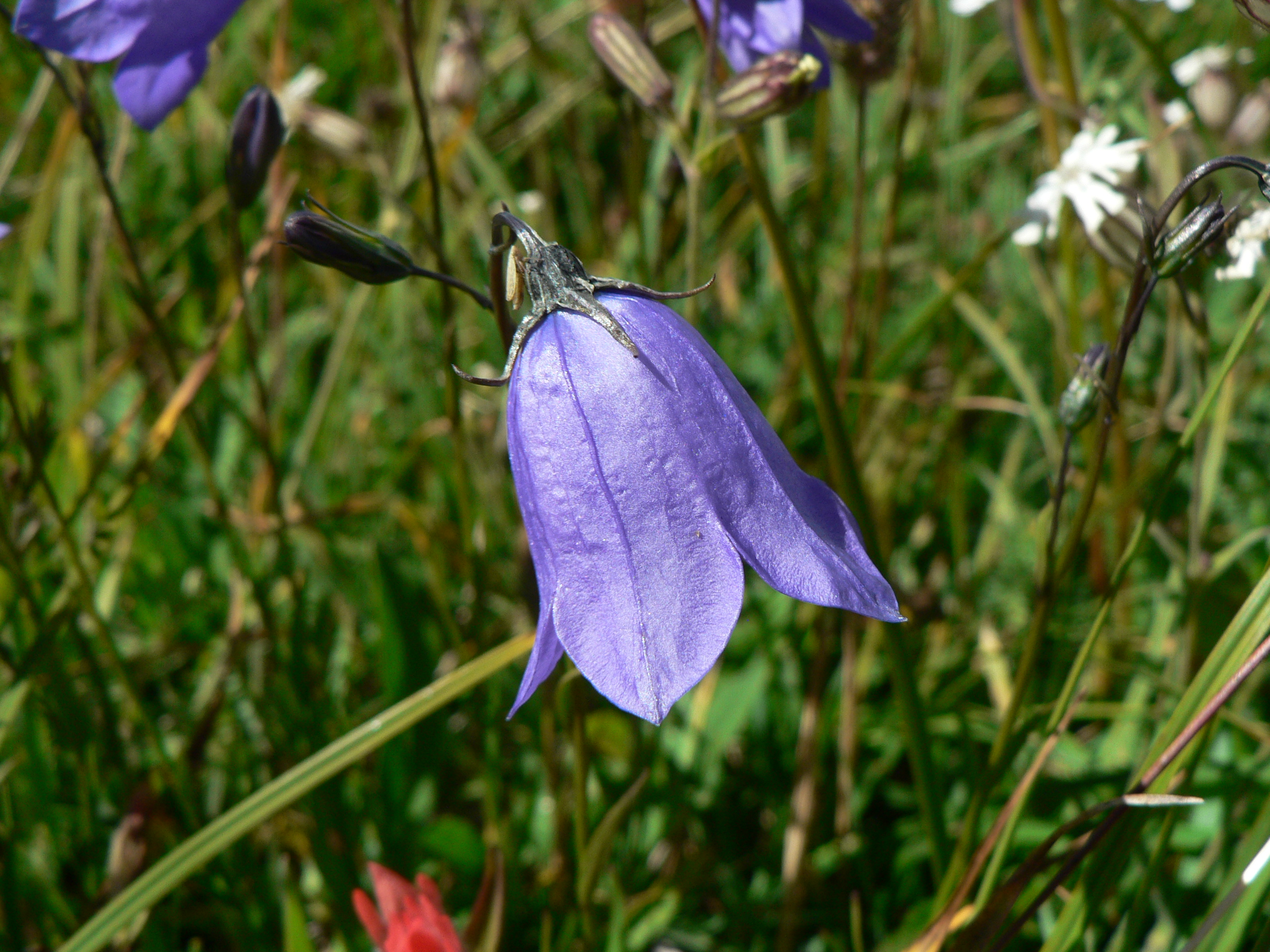 Bluebell Bellflower, Bluebell-of-Scotland